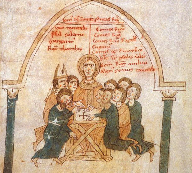 Sibylla of Acerra and conspiracy